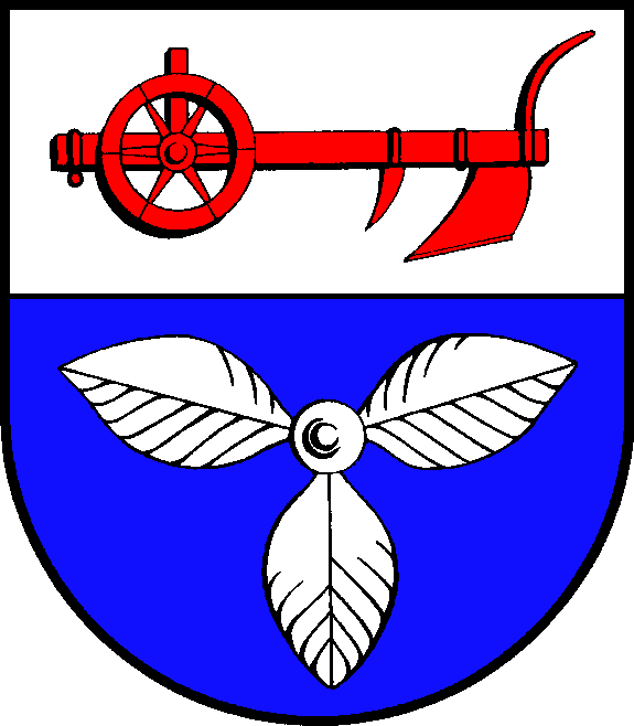 Coat of arms of the municipality Felde in Schleswig-Holstein, Germany.